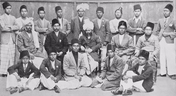 Ahmadi Students and converts from the Dutch East Indies in the presence of Mirza Basheer-ud-Din Mahmood Ahmad, the second caliph of the Ahmadiyya Muslim Community. Location: Qadian, India